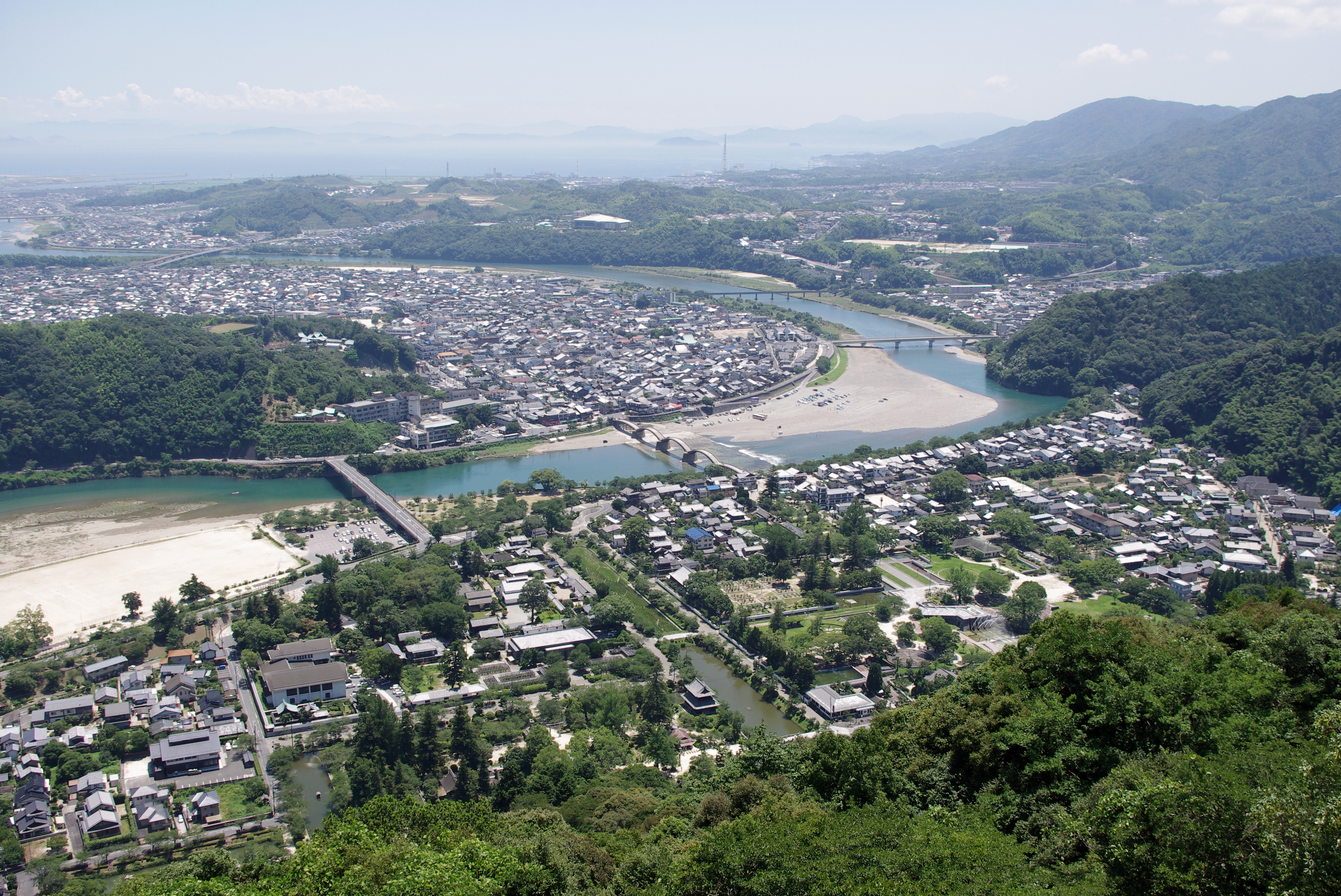 Iwakuni seen from Iwakuni Castle